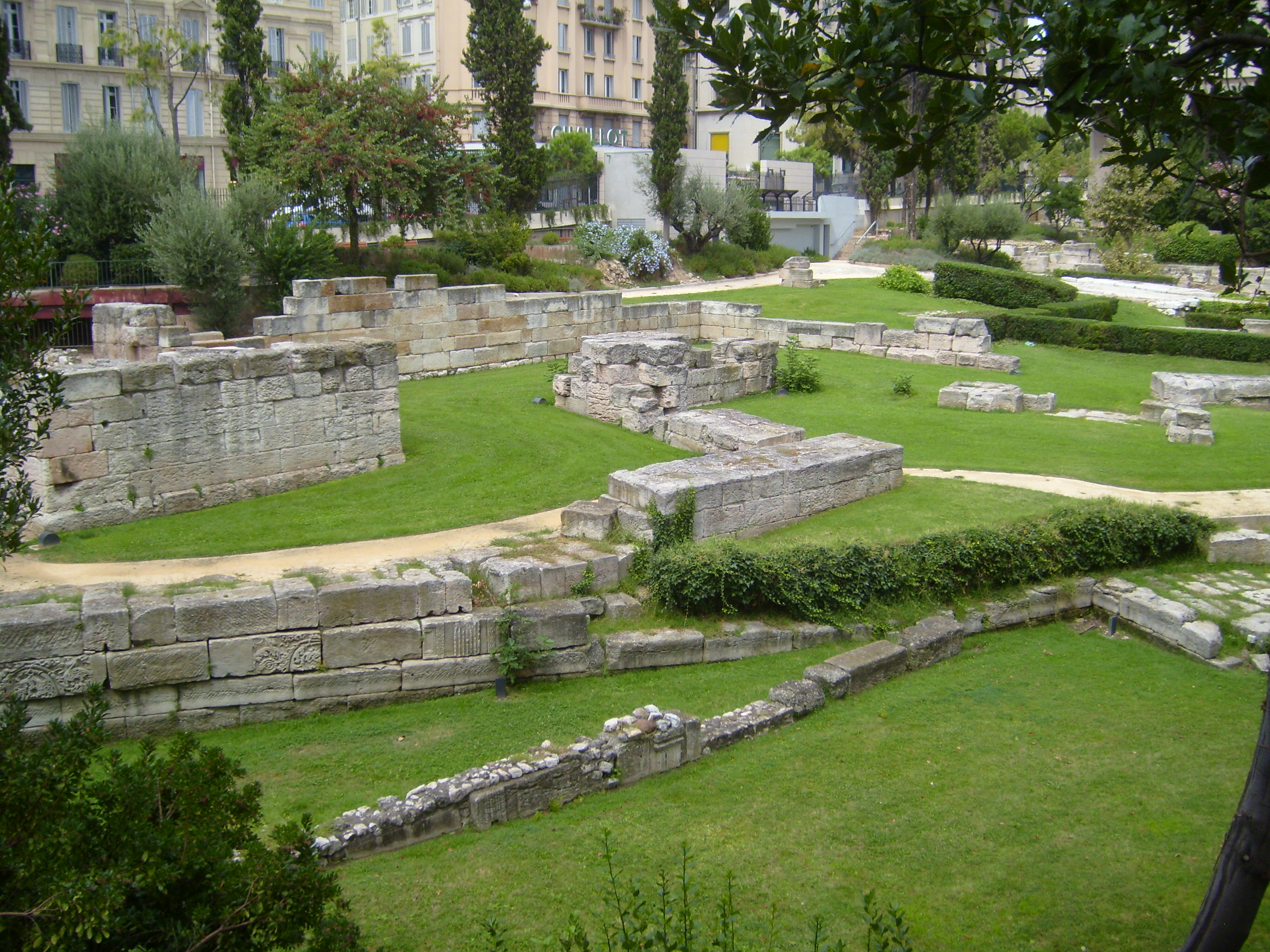 Parc des Vestiges in Marseilles; the ruins of the ancient port, located beside the Centre Commercial near the Old Port.